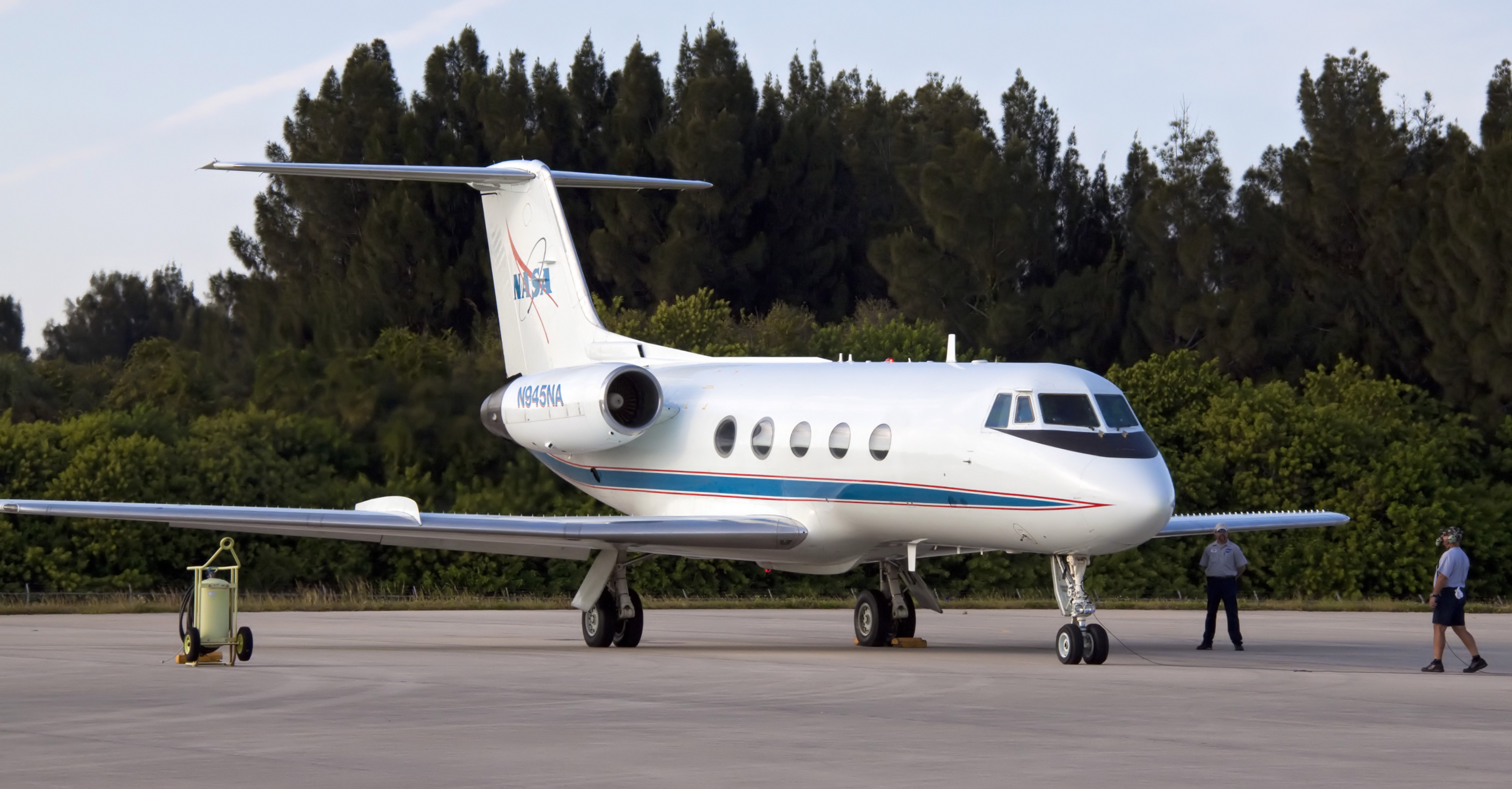 A Shuttle Training Aircraft (STA) is ready for flight on the Shuttle Landing Facility runway at NASA's Kennedy Space Center in Florida. STS-133 Commander Steve Lindsey and Pilot Eric Boe will fly the modified Gulfstream II business jets to mimic the shuttle's handling during the final phase of landing. Practice landings are part of the Terminal Countdown Demonstration Test (TCDT), which provides each shuttle crew and launch team an opportunity to participate in various simulated activities, including equipment familiarization and emergency training at the launch pad. Space shuttle Discovery and its STS-133 crew will deliver the Permanent Multipurpose Module, packed with supplies and critical spare parts, as well as Robonaut 2, the dexterous humanoid astronaut helper, to the International Space Station. Launch is targeted for Nov. 1 at 4:40 p.m. FAA registry